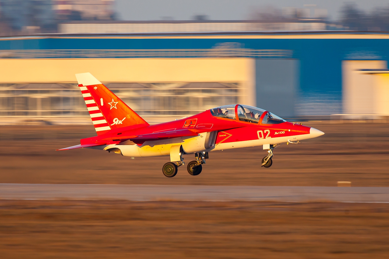 Yakovlev Yak-130 take off at Zhukovsky